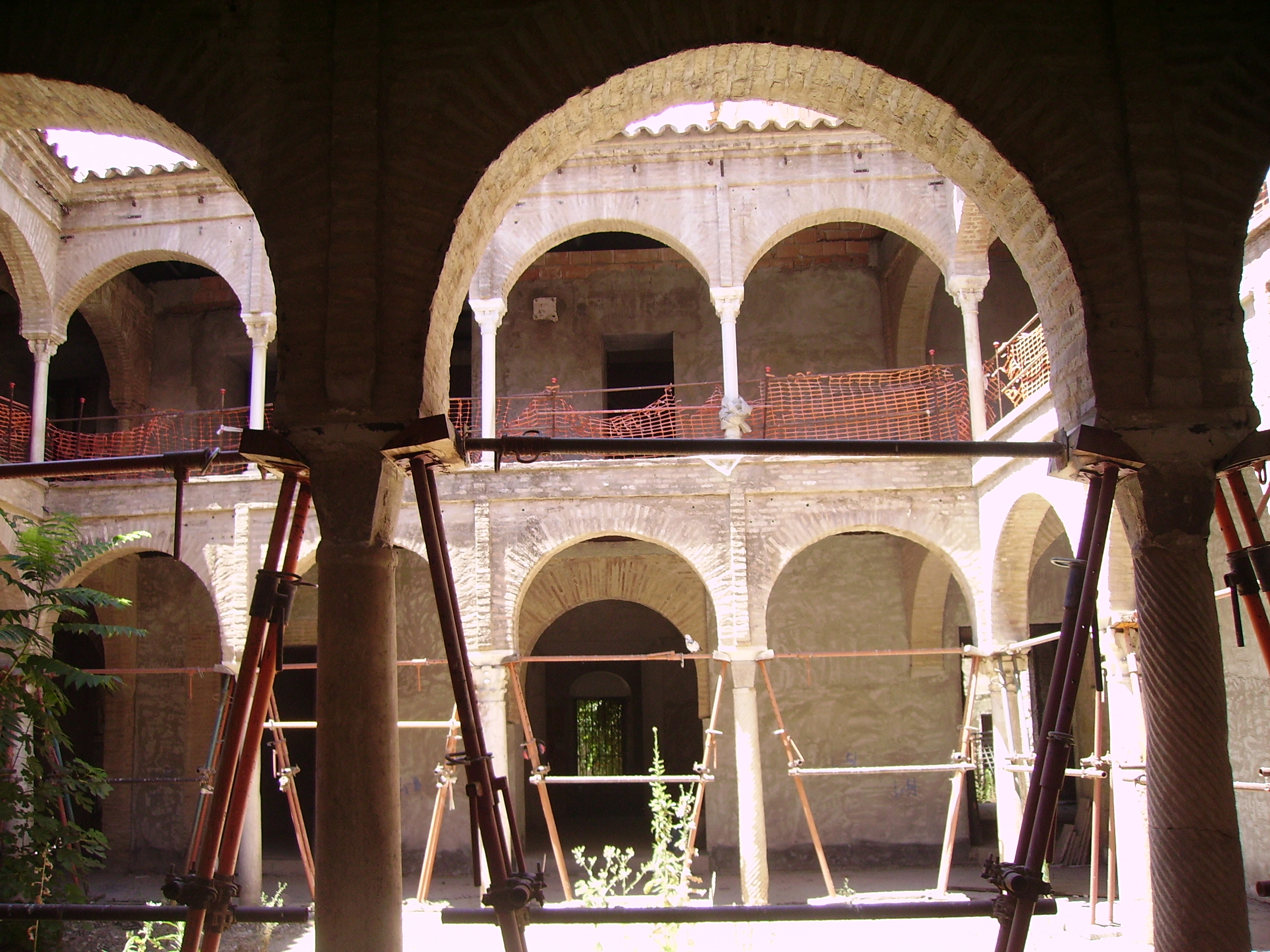 Bullfighting Museum of Córdoba under restauration, in Córdoba (Spain).